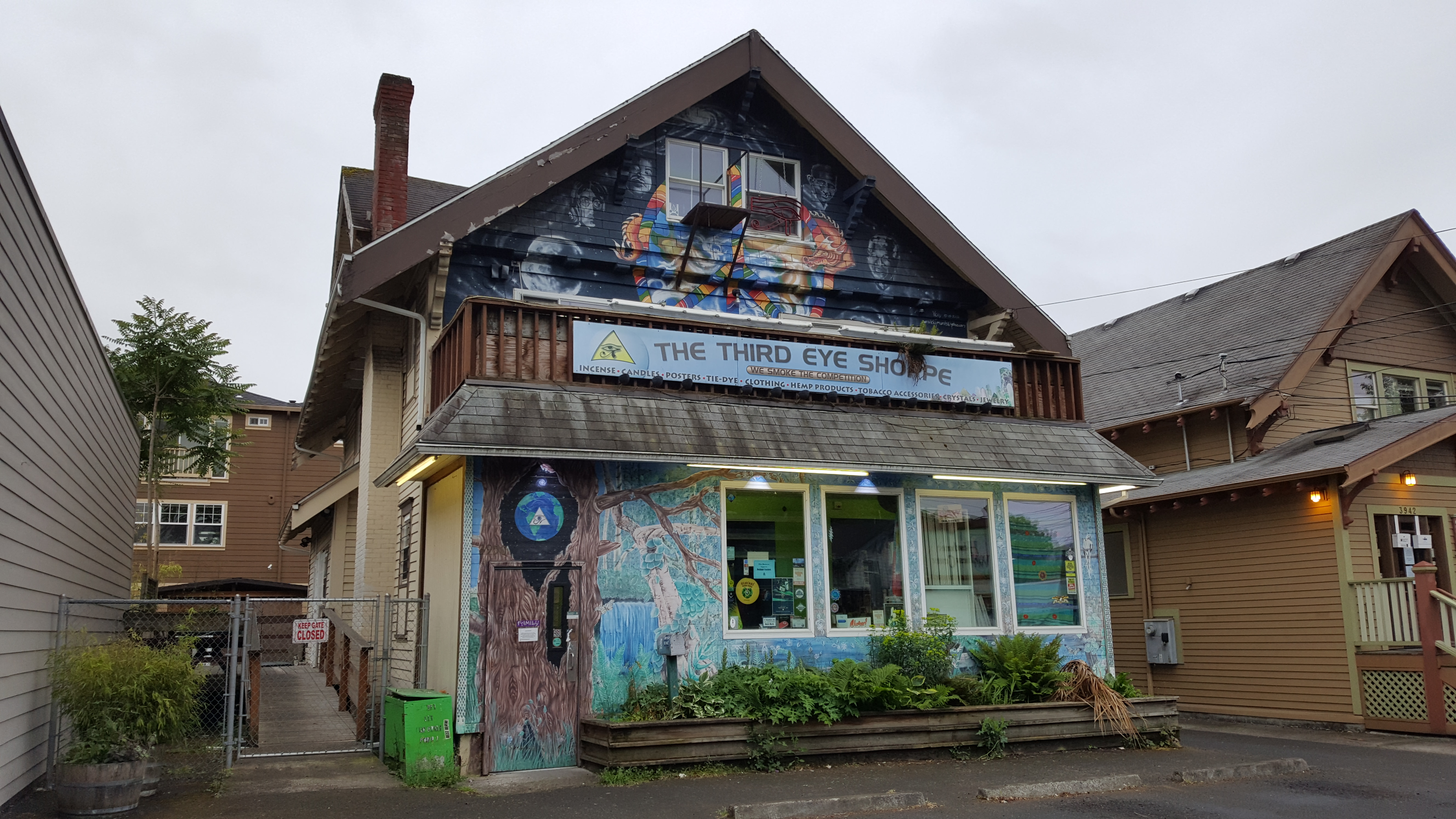 Third Eye